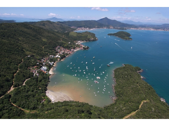 Steel Box East View